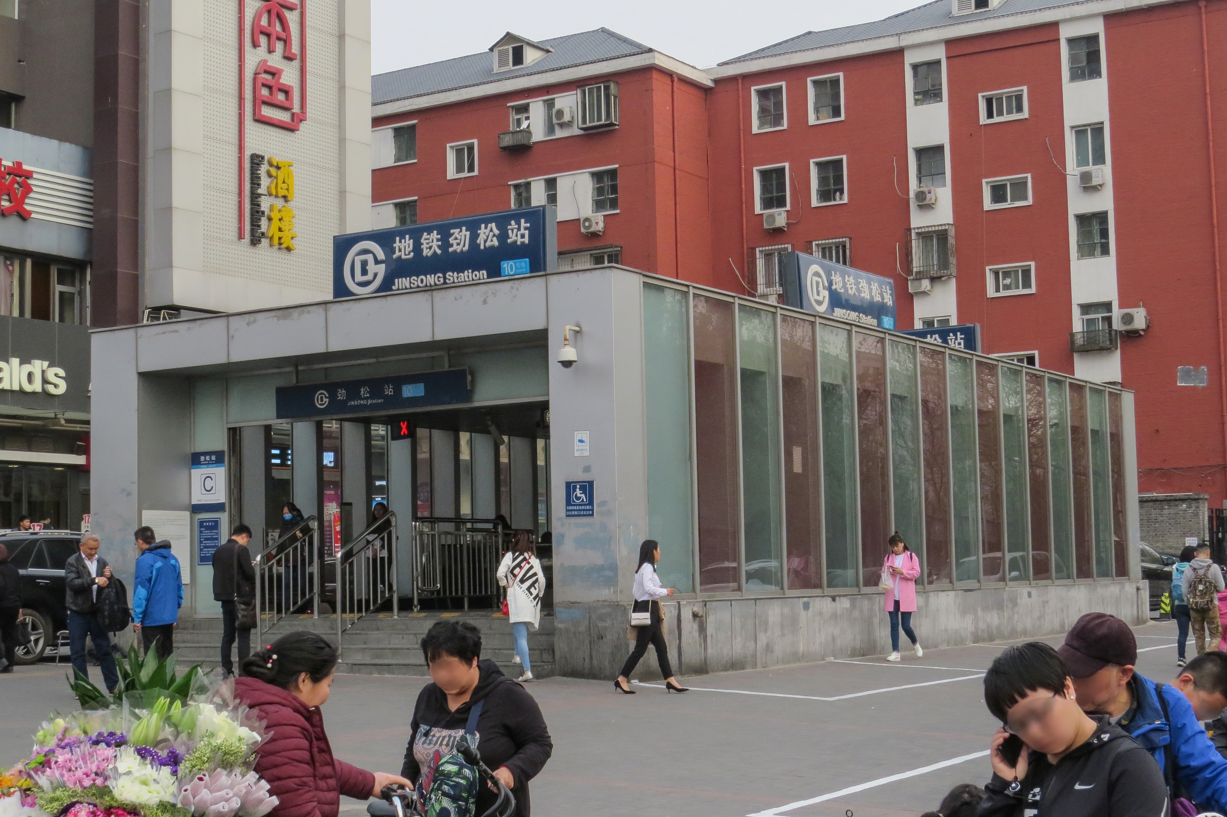 Before the opening of Line 7, raincoat vendors were common near this exit. For what? Happy Valley.